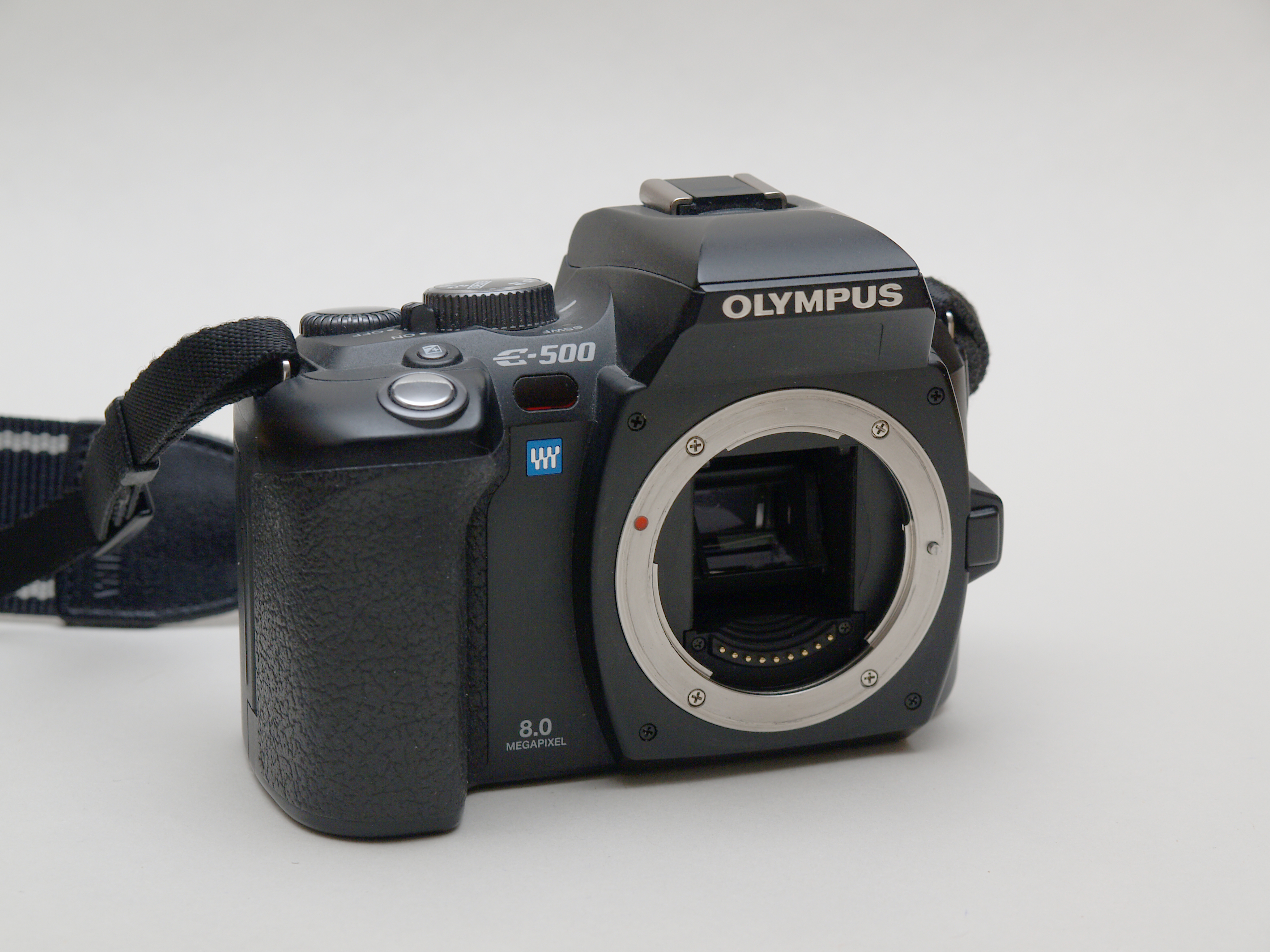 Olympus E-500 digital SLR camera body